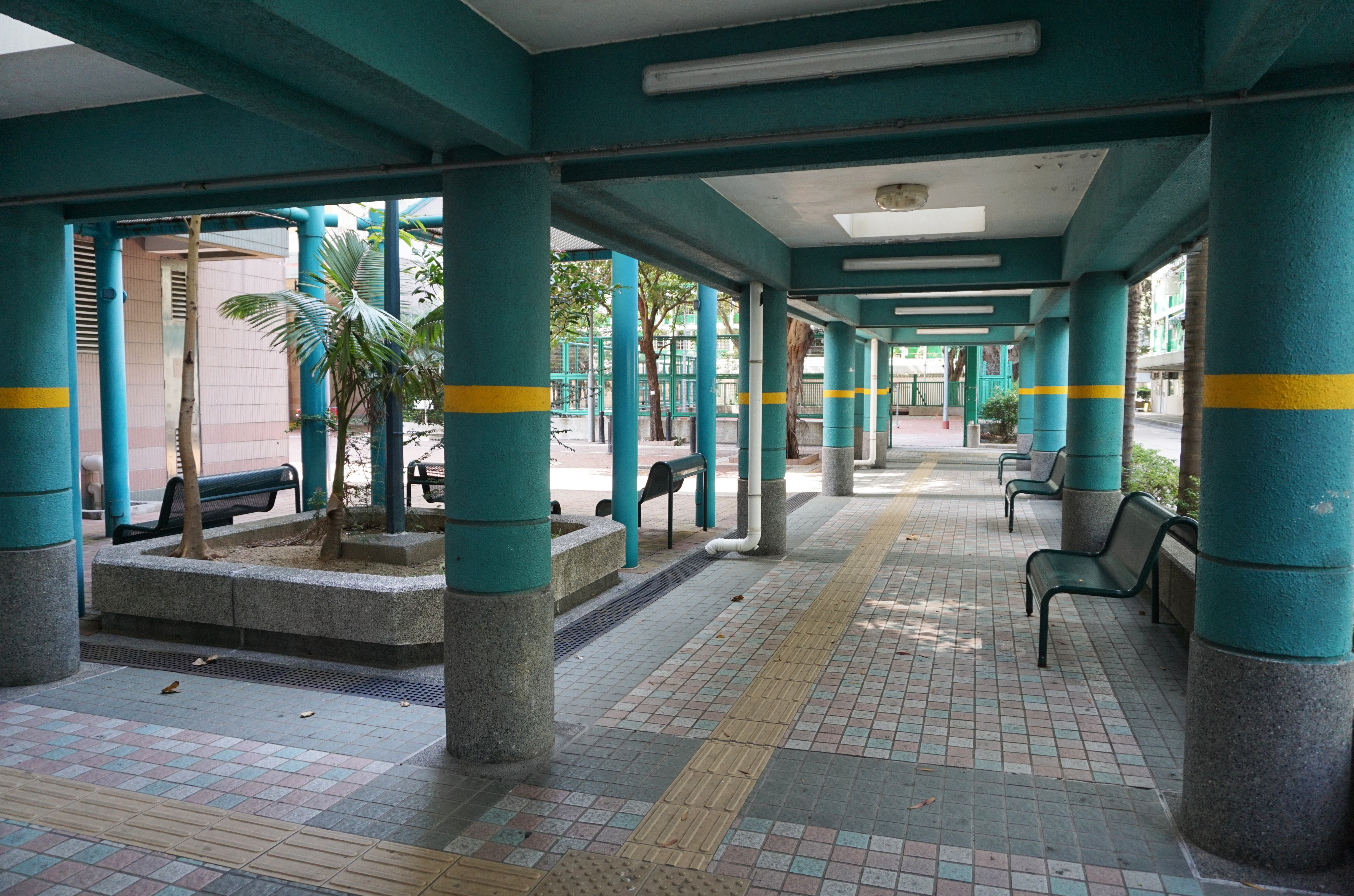 Tai Hang Tung Estate in Shek Kip Mei, Hong Kong.